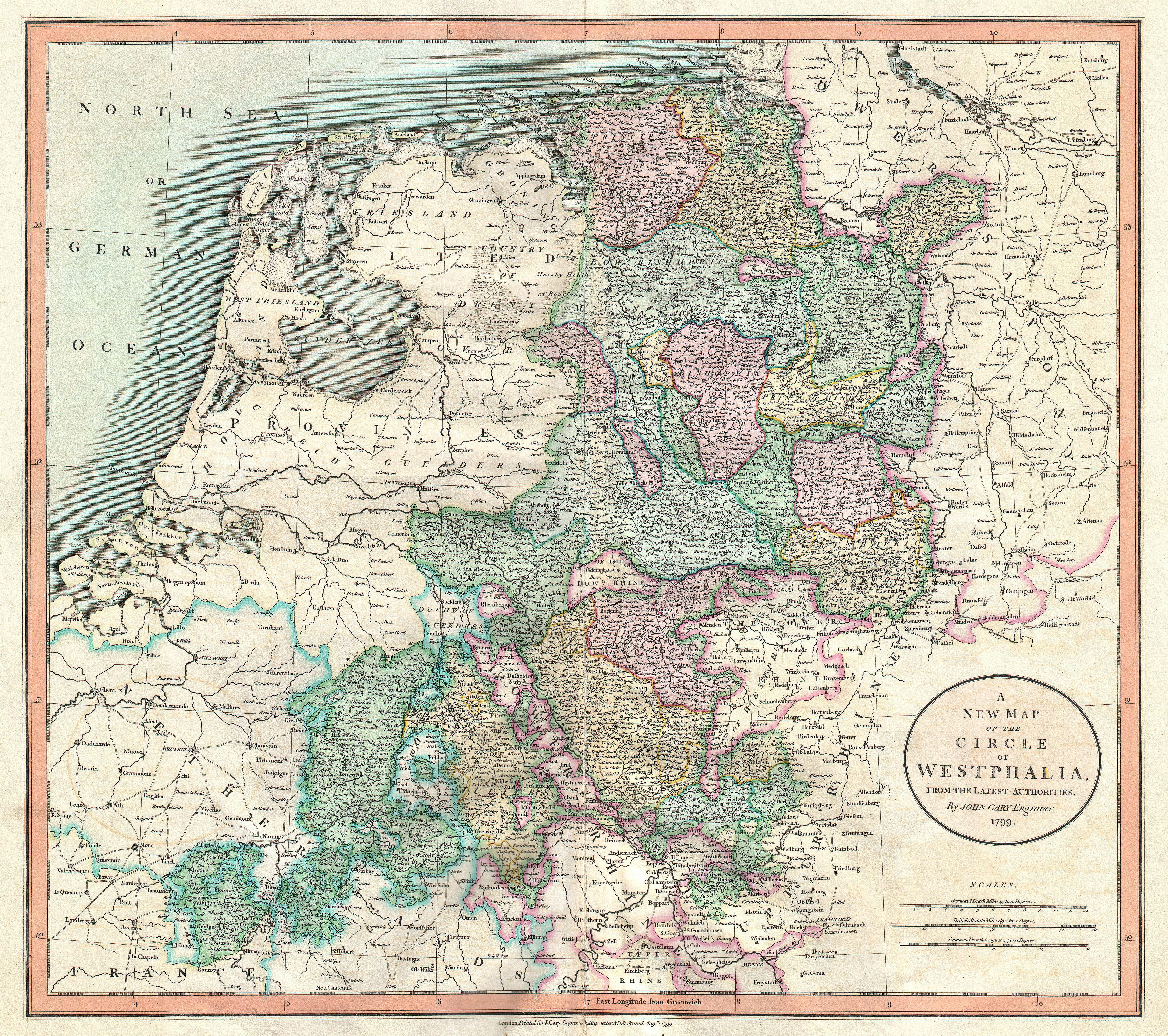 An extremely attractive example of John Cary’s 1799 map of the Westphalia region of Germany. Covers from the North Sea to the Lower Rhine. Includes much of Holland, Belgium and Lower Saxony as well. Highly detailed with color coding according to region. Shows forests, cities, palaces, forts, roads, rivers, and offshore sandbars. All in all, one of the most interesting and attractive atlas maps of Westphalia to appear in first years of the 19th century. Prepared in 1799 by John Cary for issue in his magnificent 1808 New Universal Atlas .